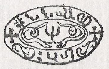 Ras Mekonnen's second seal (1897-1906)